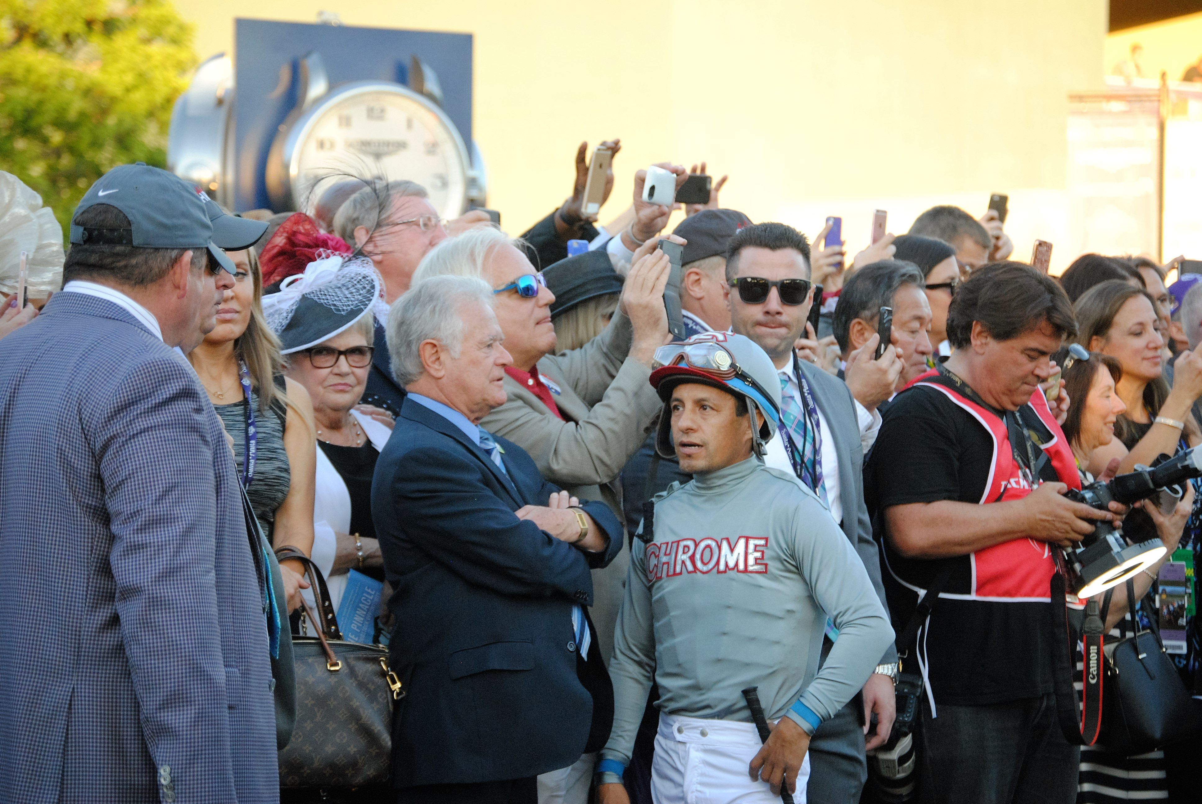 Art Sherman, Victor Espinoza and some of Team Chrome before the 2016 Breeders' Cup Classic